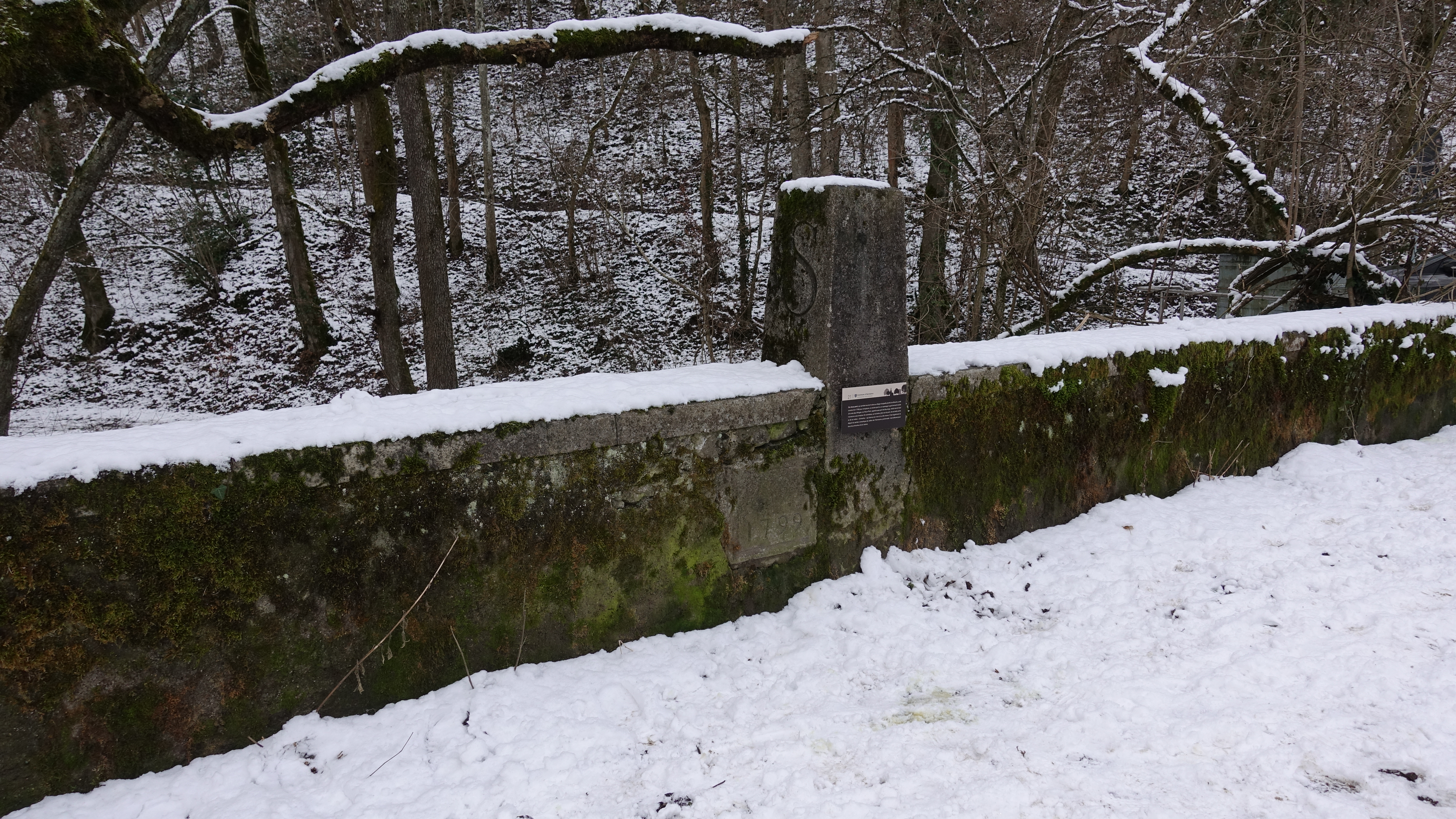 Pont de Bouringe, une lettre "S"